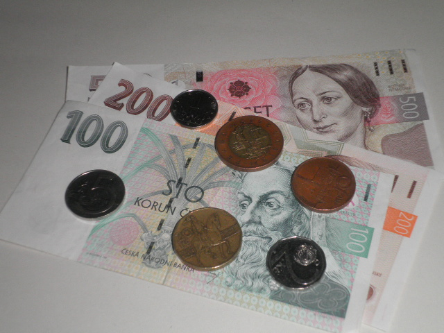 The banknotes and coins of the Czech Republic